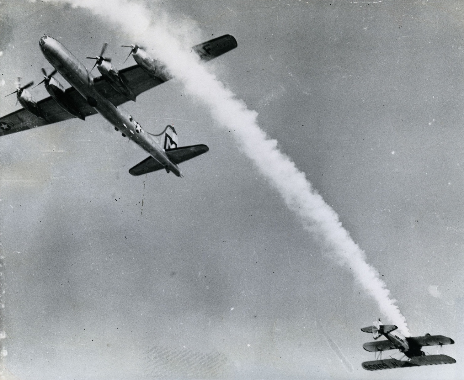 "Near Collision at Air Show", photo of a stunt plane having almost collided with a B-29 bomber during an air show at Oakland Airport. This photograph won the 1950 Pulitzer Prize for Photography.